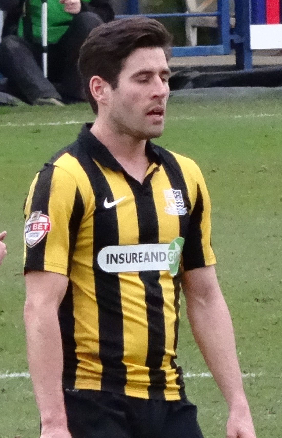 Michael Timlin.